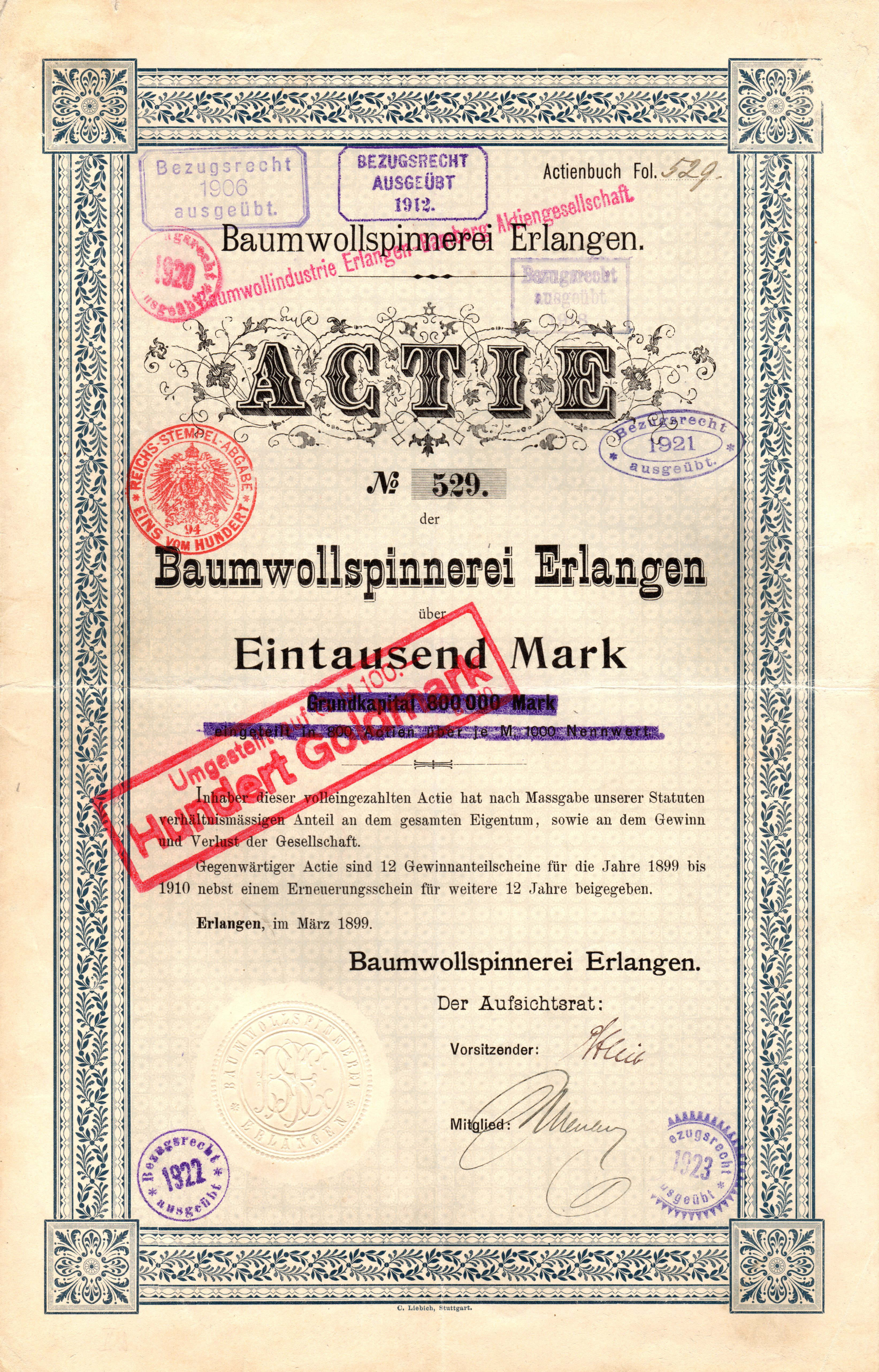 Share of the Baumwollspinnerei Erlangen, issued March 1899